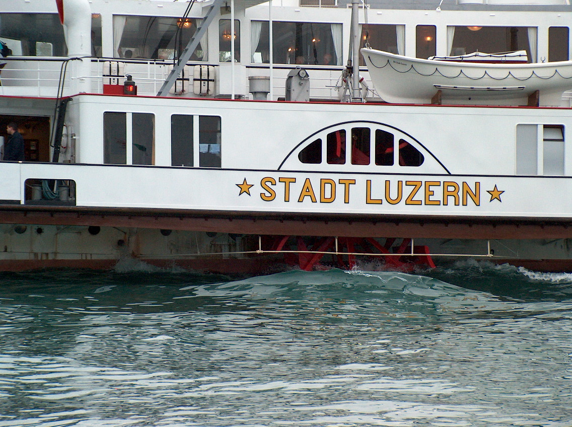 Lake Lucerne paddle steamer "Stadt Luzern". Photo taken May 1, 2004 (Lake Lucerne "steamer parade" celebrating the renovation of steamer "Gallia").